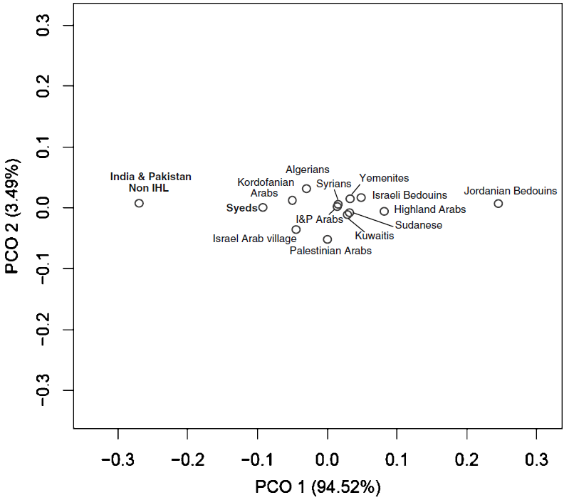 Classical multidimensional scaling based on RST genetic distances showing the genetic affinities of the Syeds with their non IHL neighbours from India and Pakistan (both in bold characters) and with various other Arab populations Source Based on image in the report: Y chromosomes of self-identified Syeds from the Indian subcontinent show evidence of elevated Arab ancestry but not of a recent common patrilineal origin, Elise M. S. Belle & Saima Shah & Tudor Parfitt & Mark G. Thomas; Received: 11 March 2010 / Accepted: 28 May 2010 / Published online: 29 June 2010